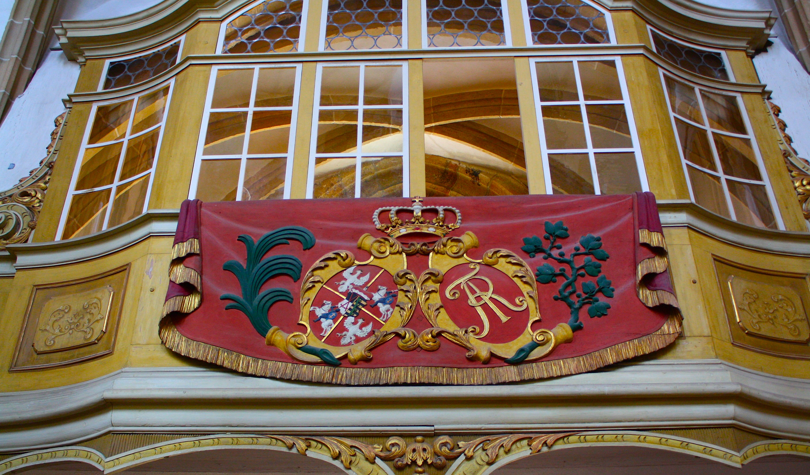 Freiberg Cathedral: the electoral box of King Augustus II the Strong of Poland-Lithuania and his electoral cypher as Elector of Saxony (Frederick Augustus)